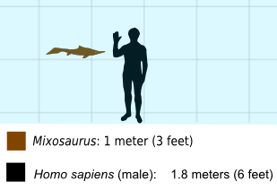 A comparison of the body sizes between an Mixosaurus and an adult male human.